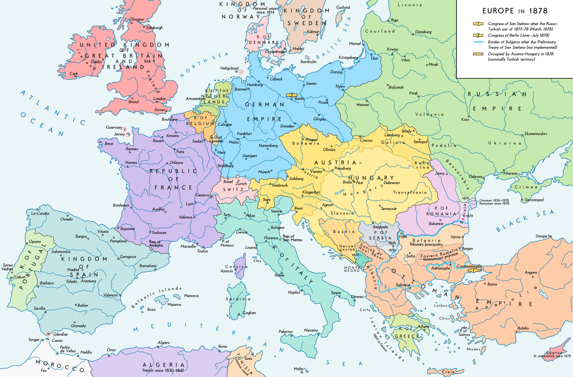 Europe 1878. Historical map of the political situation after the Congress of Berlin and the territorial and political rearrangement of the Balkan Peninsula. Please don't alter the map, when you think there something not written or depicted correctly. Leave a message at the talk page of the file. After a verificiation and a possible discussion, i will upload a new map version with all new changes. This prevents an unnecessary waste of disc space and ensures a good result, aesthetically and contentwise. - The author.